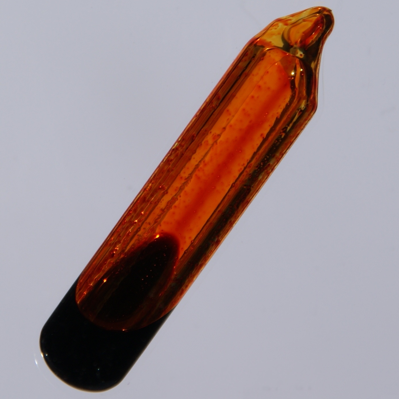 99.5 % pure liquid Bromine in a 4 x 1 cm big glass ampoule, cast in acrylic.